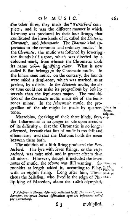 A page describing tetrachord genera diatonic, chromatic, and inharmonic